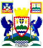 Čukarica coats of arms, Serbia